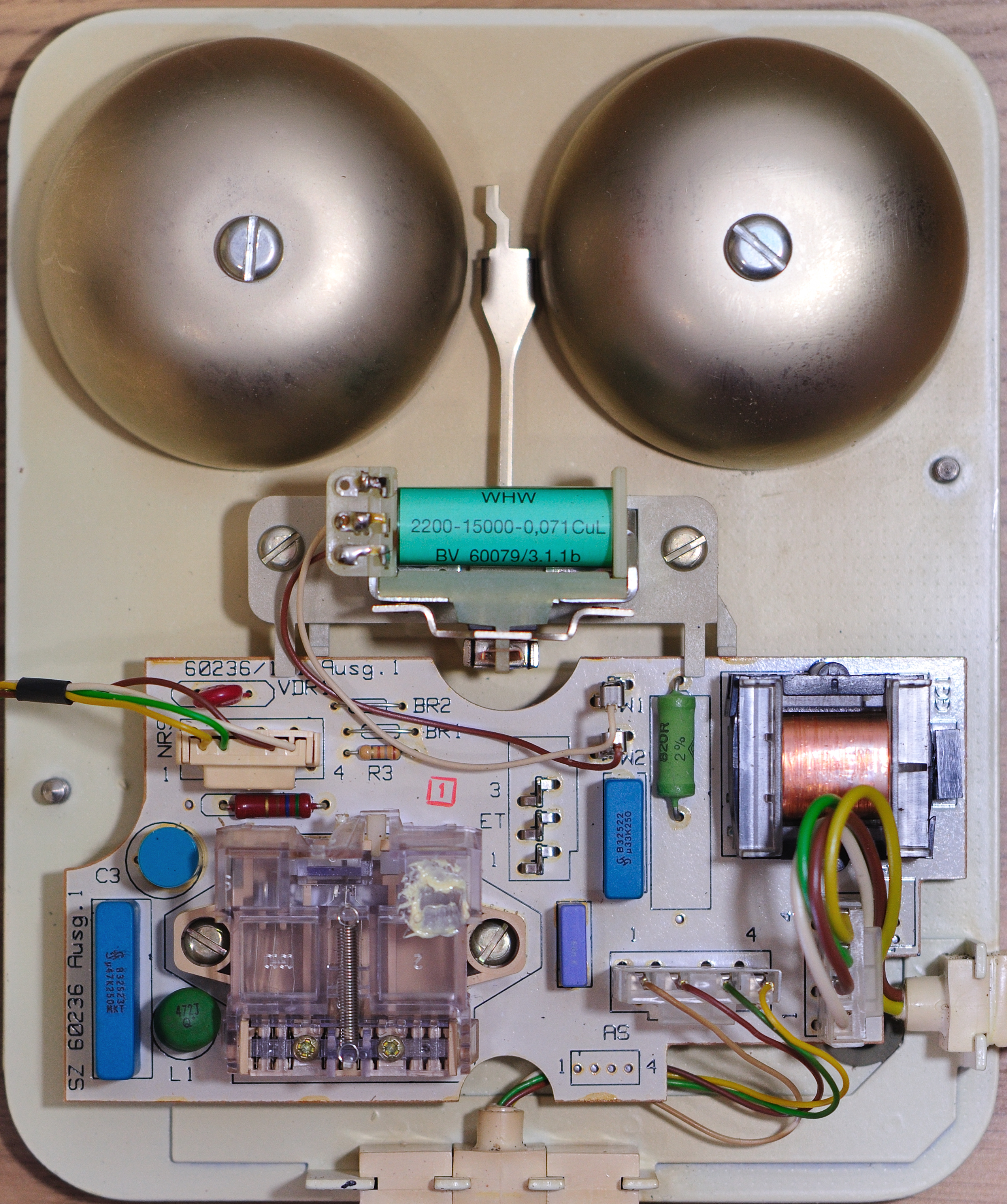 Base of the W48 phone in the version of the 1990 anniversary, in spite of the modern appearance is still working with pulse dialing.